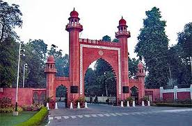 Babe Seyad gate of AMU